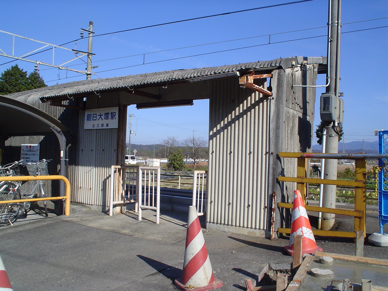 Asahi Ōtsuka Station in shiga pref, japan